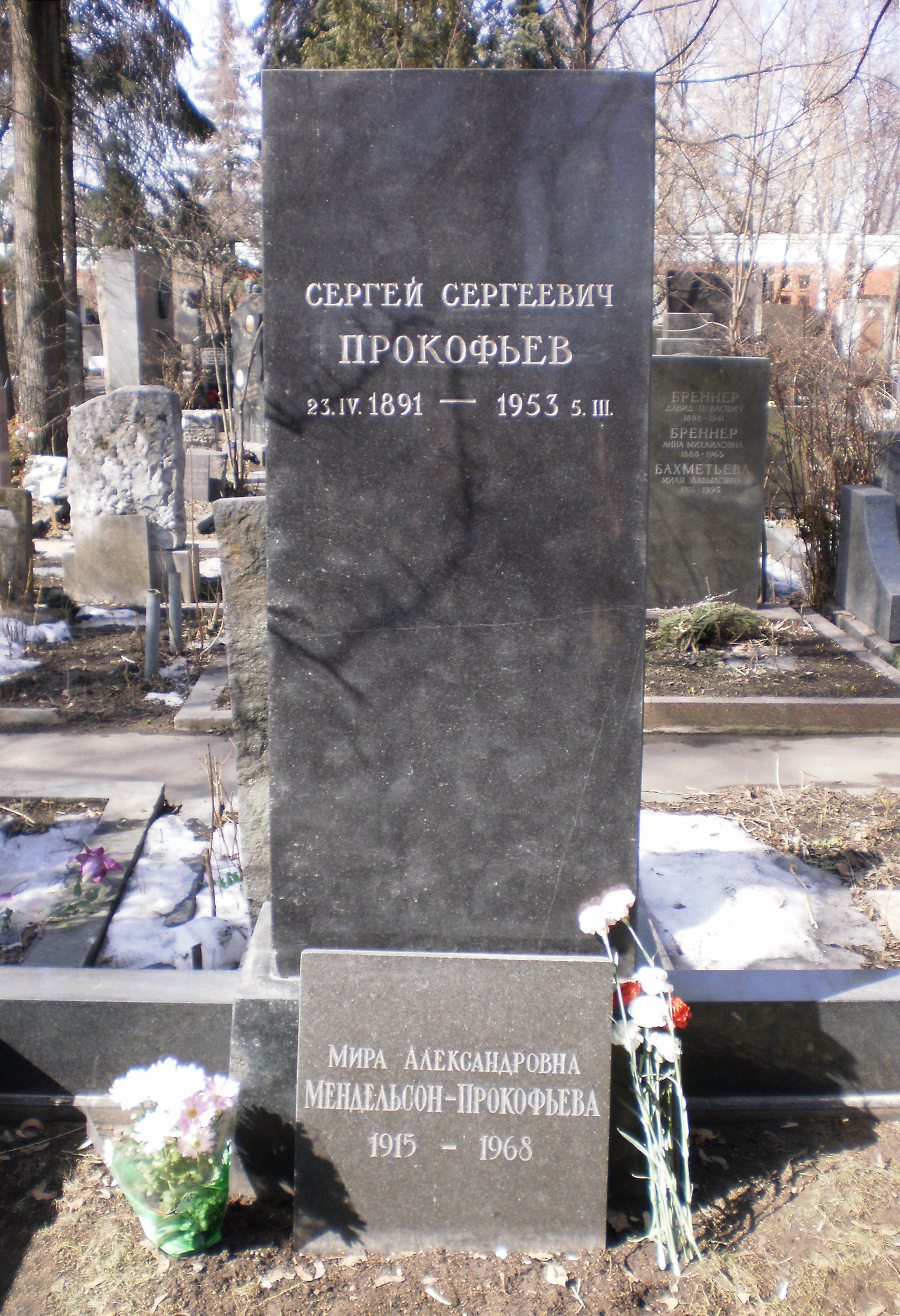 Grave of Sergei Prokofiev in the Novodevichy Cemetery